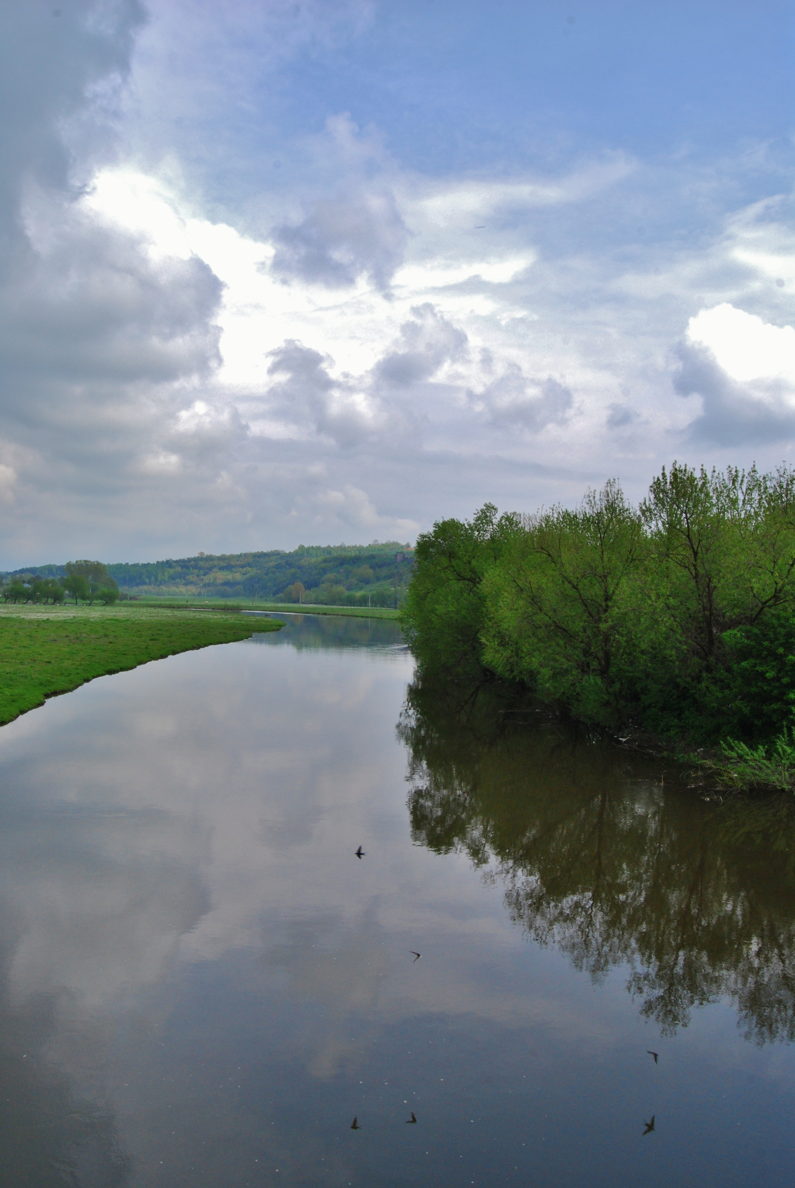 Zbruch River between Kalaharivka, Husiatyn Raion, Ternopil Oblast and Sataniv, Horodok Raion, Khmelnytskyi Oblast